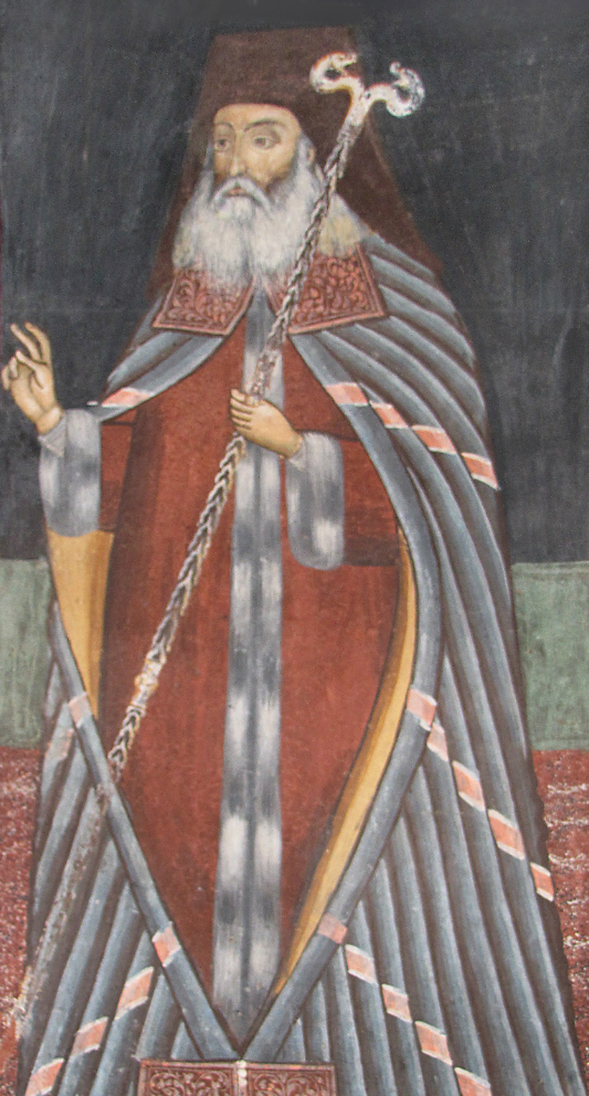 Engraving showing the Georgian-born Wallachian Metropolitan bishop Ant[h]im.